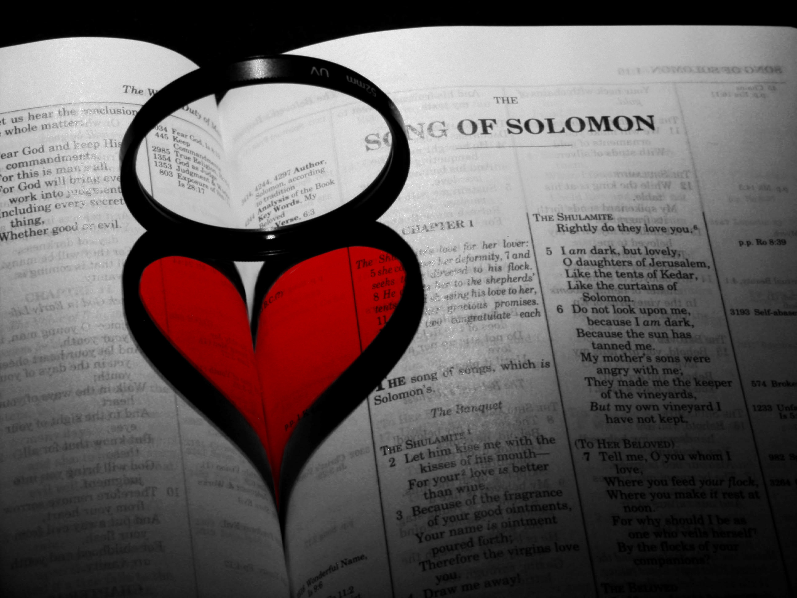 Heart shaped shadow cast by a ring on Bible (Song of Solomon). Black and white; selective coloring created with Adobe Photoshop.